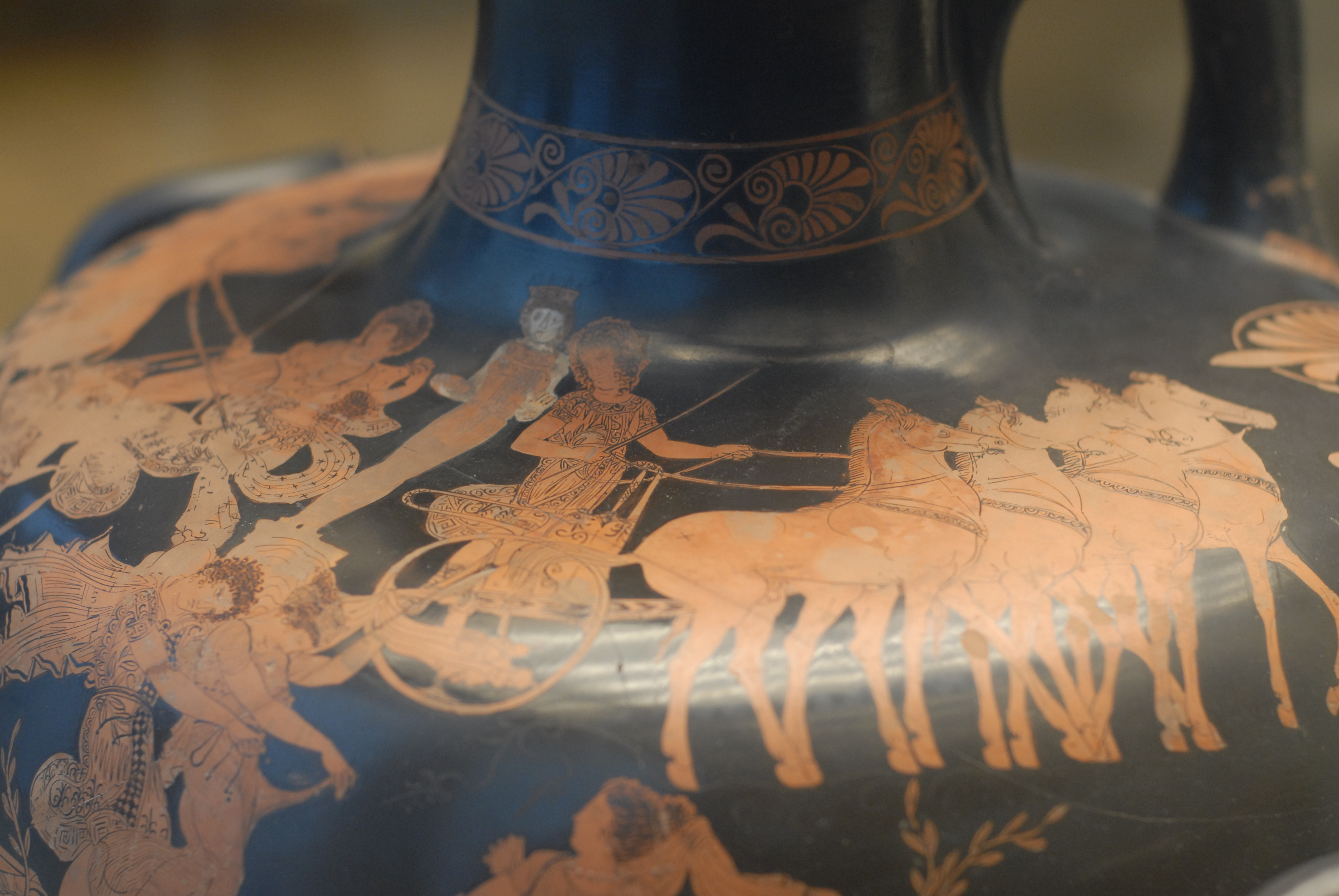 Rape of the Leucippids by the Dioscuri; bottom left, Kastor and Eriphyle; charioteer is Chrysippos. Attic red-figured hydria, ca. 420–400 BC.